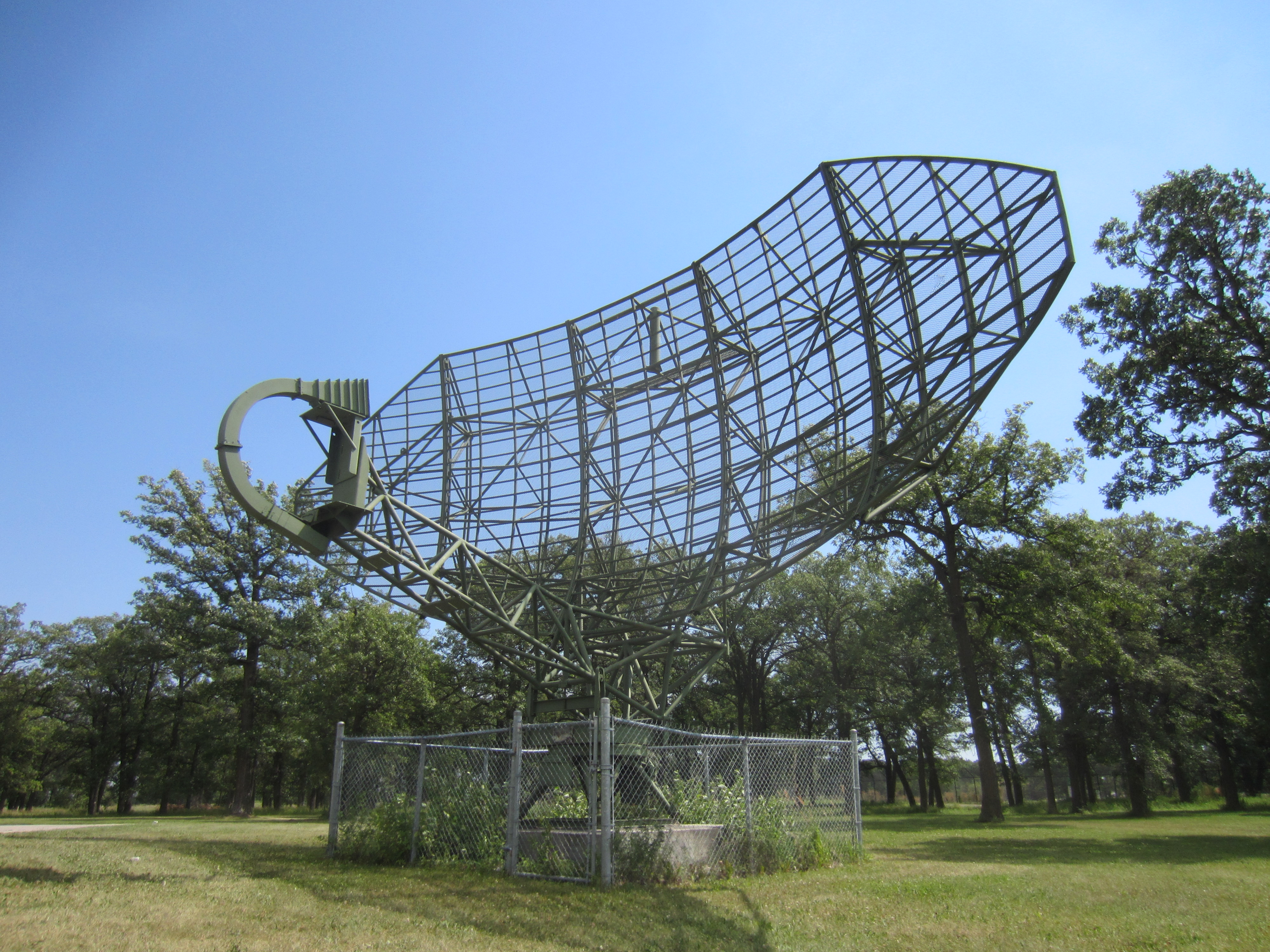 Static display of an AN/FPS 508 radar antenna used on the Pine Tree Line across Canada during the last 1950's through to 1988. The antenna rotated at 5 revolutions per minute and could detect aircraft up to 200 miles away and at altitudes of 100,000 feet. This was an L-band radar (1220-1320 MHZ) and had a pulse rate of 440 pulses per second and peak power of 750 kilowatts. This antenna is on display at Air Force Heritage Park, Winnipeg